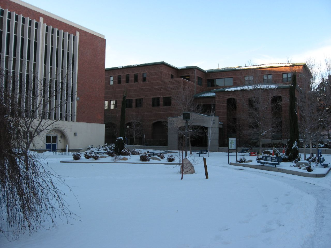 The University of Nevada, Reno (usually referred to as the University of Nevada or Nevada) is a teaching and research university established in 1874 and located in Reno, Nevada, USA. It is the sole land grant institution for the state of Nevada. The campus is home to the large-scale structures laboratory in the College of Engineering, which has put Nevada researchers at the forefront nationally in a wide range of civil engineering, earthquake and large-scale structures testing and modeling. The Nevada Terawatt Facility, located on a satellite campus of the university, includes a terawatt-level Z-pinch machine and terawatt-class high-intensity laser system – one of the most powerful such lasers on any college campus in the country. It is home to the University of Nevada School of Medicine, with campuses in both of Nevada's major urban centers, Las Vegas and Reno, and a health network that extends to much of rural Nevada. The faculty are considered worldwide and national leaders in diverse areas such as environmental literature, journalism, Basque studies, and social sciences such as psychology. It is also home to the Donald W. Reynolds School of Journalism, which has produced six Pulitzer Prize winners. The school includes 16 clinical departments and five nationally recognized basic science departments. University of Nevada, Reno is ranked 181st amongst national universities nationwide as a Tier 1 University by U.S. News & World Report.